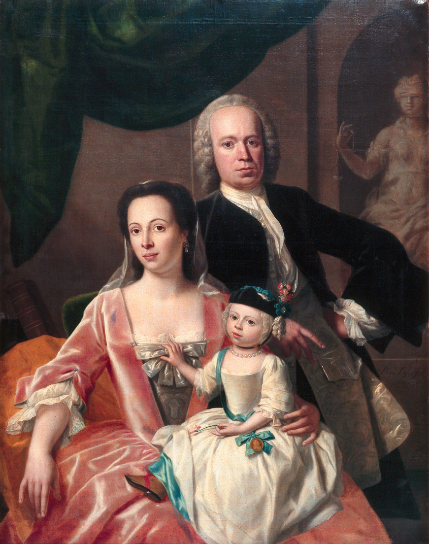 Francina Margaretha Sichterman and Scato Gockinga and their daughterTateke Helena oil on canvas 149 cm x 117 cm 1745